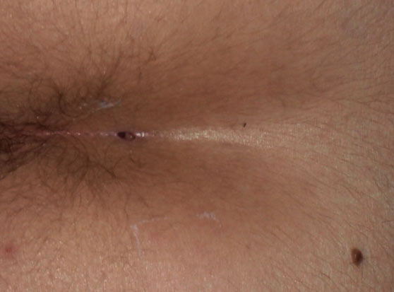 Pilonidal Cyst.